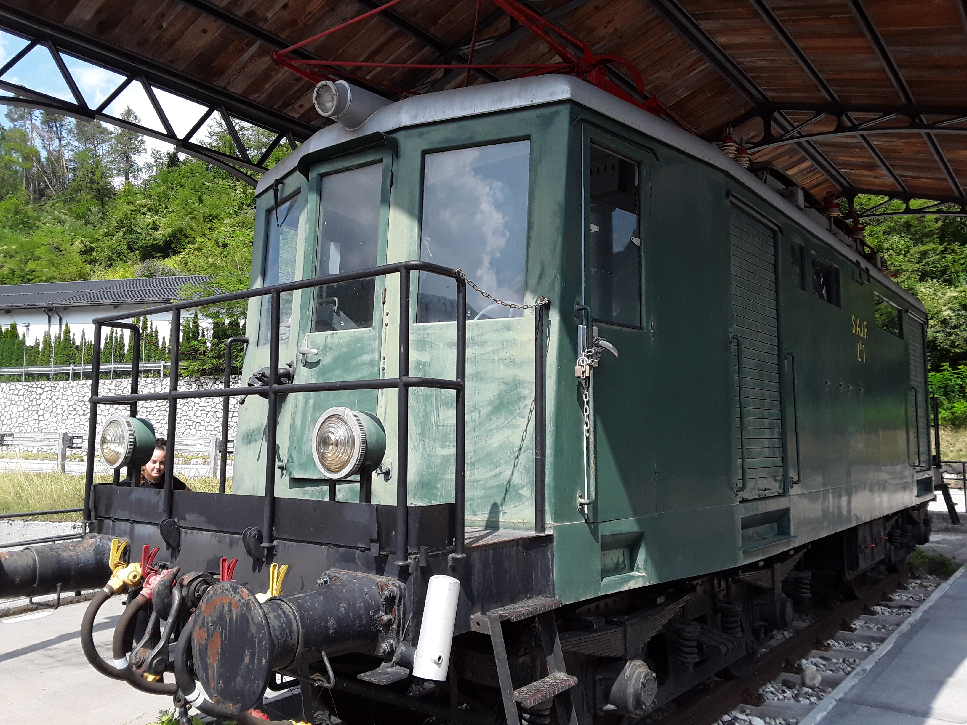 Valle Imperina Mining Center